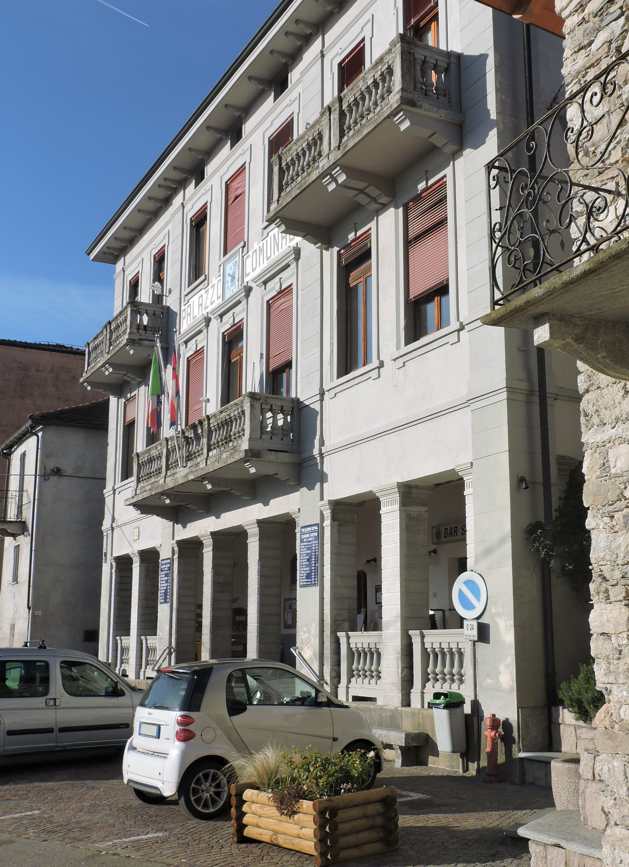 Quarna Sopra (VB, Italy): town hall